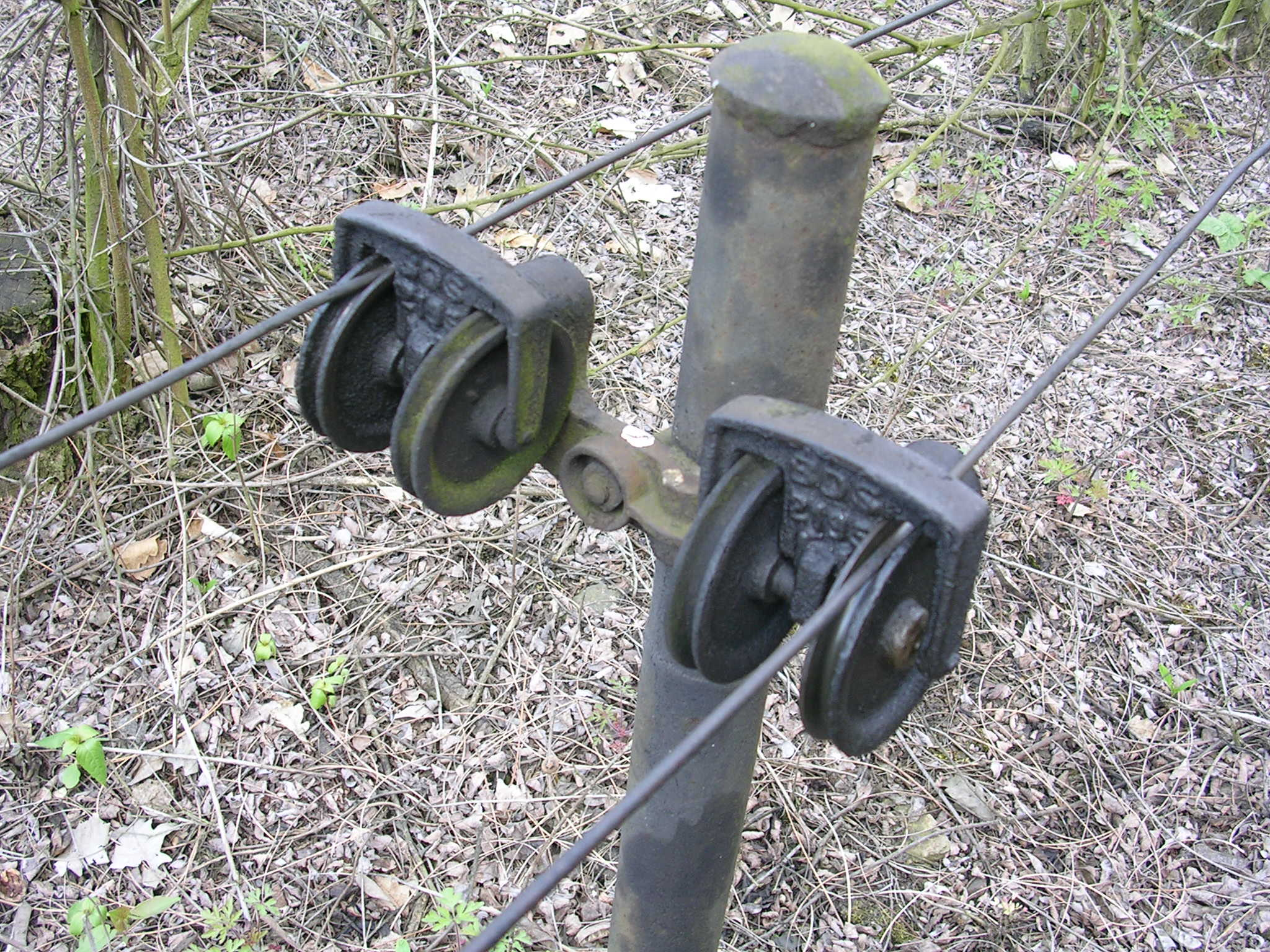 Davle, the Czech Republic.